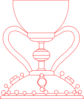 Title: Holy Calice / Saint Calice Author: Witoki under following licence